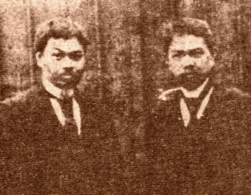 The Luna brothers: Antonio (left) and Juan, the foremost Filipino painter at the time.